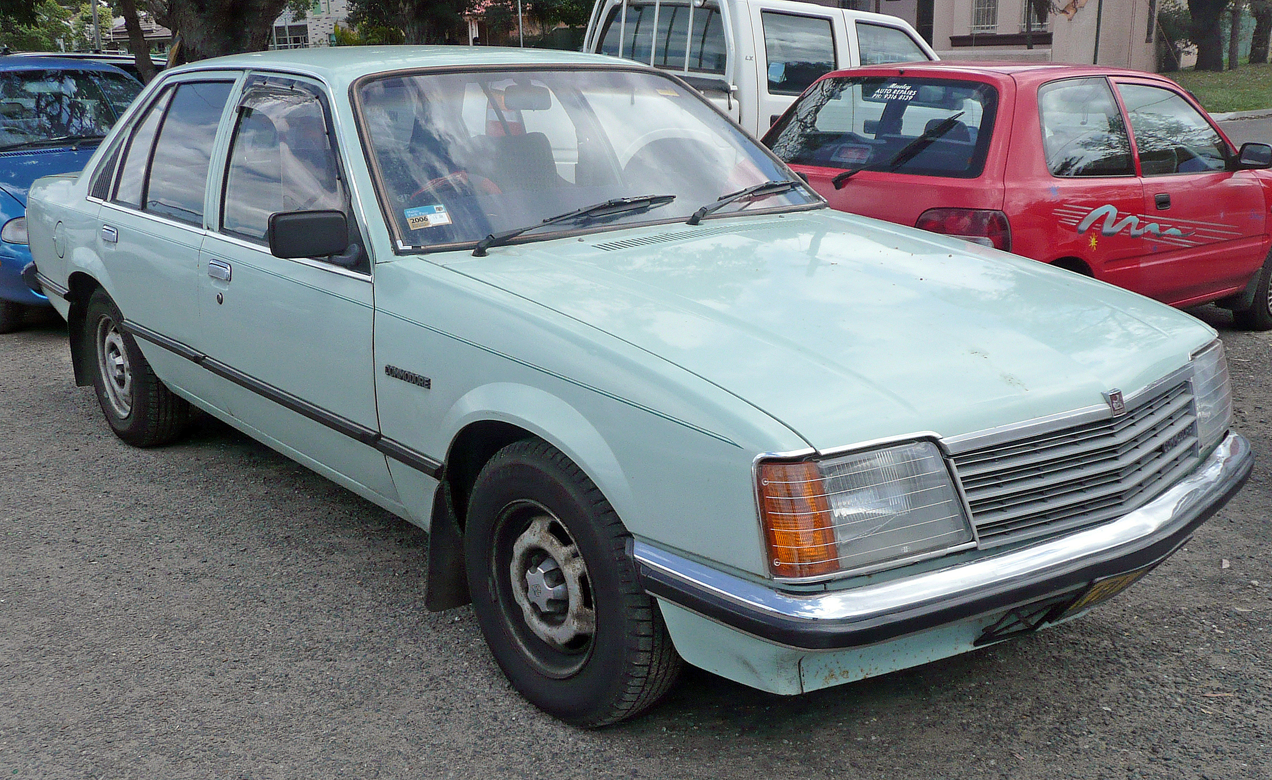 1979 Holden Commodore (VB) 3.3 sedan. Photographed in Sutherland, New South Wales, Australia.